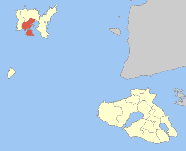 Locator map of Nea Koutali Thermis municipality (Δήμος Νέας Κούταλης) in Lesbos prefecture (Νομός Λέσβου) in Greece.